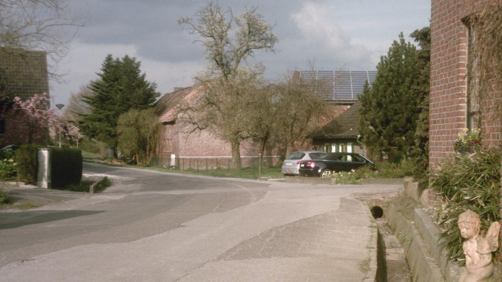 "Omperter Weg" in Ompert, Viersen, Germany.